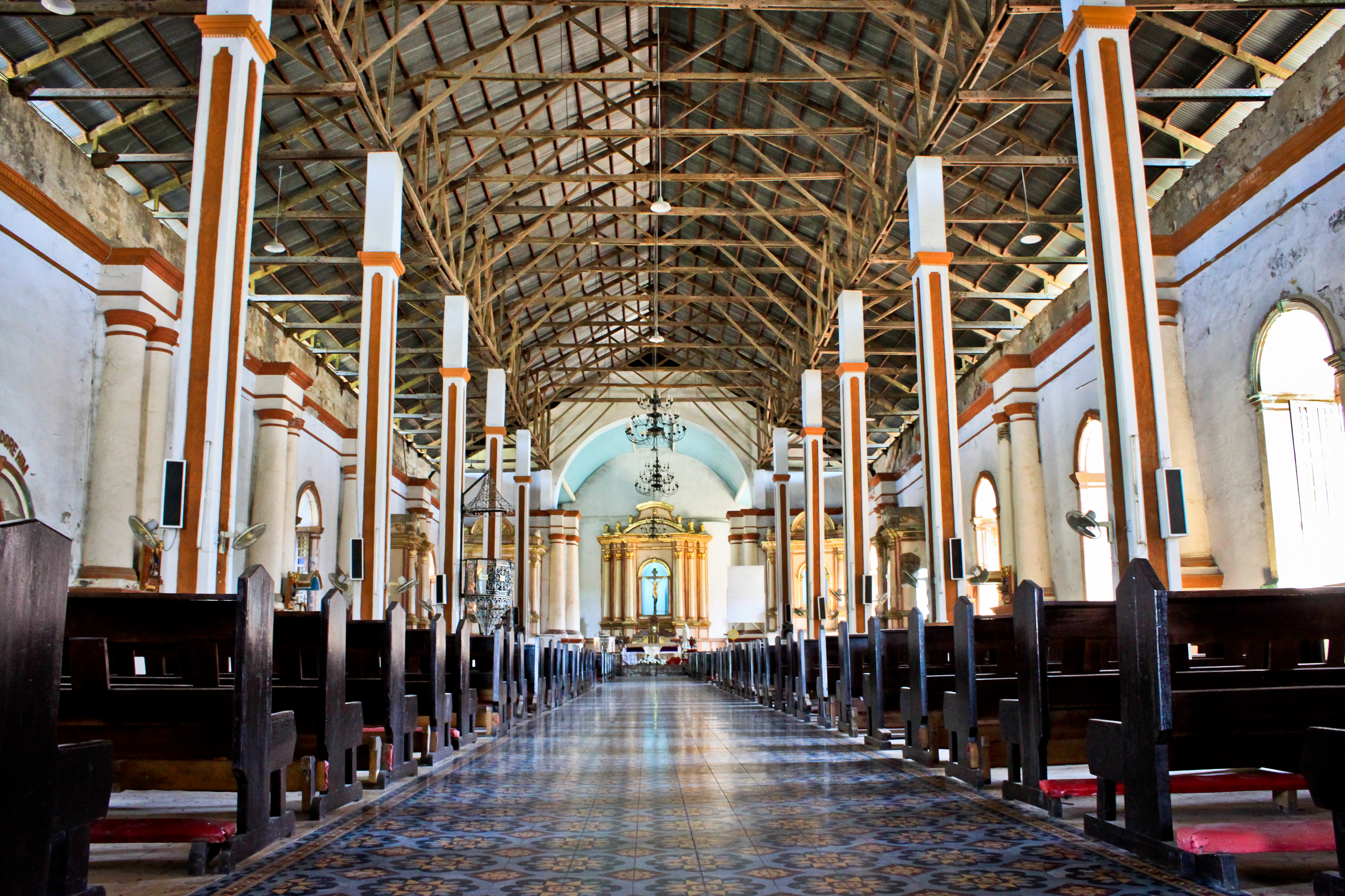 INSIDE THE PAOAY CHURCH